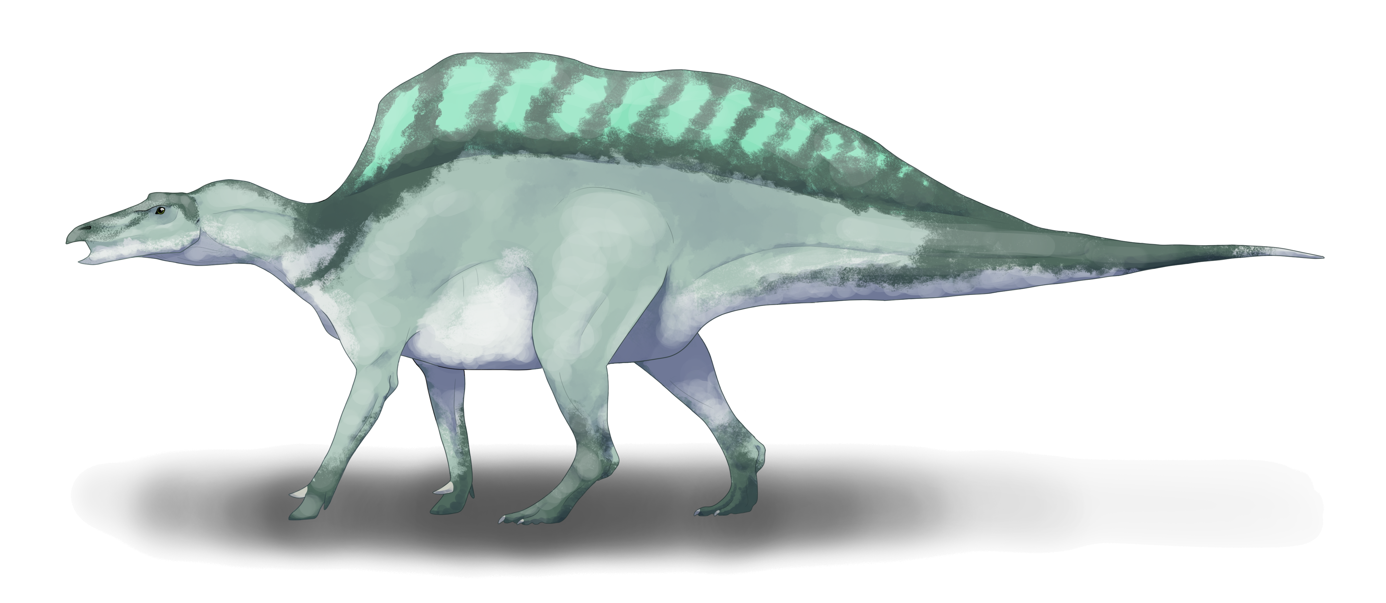 A restoration of Ouranosaurus nigeriensis based on skeletal casts, diagrams, and fossil specimens.